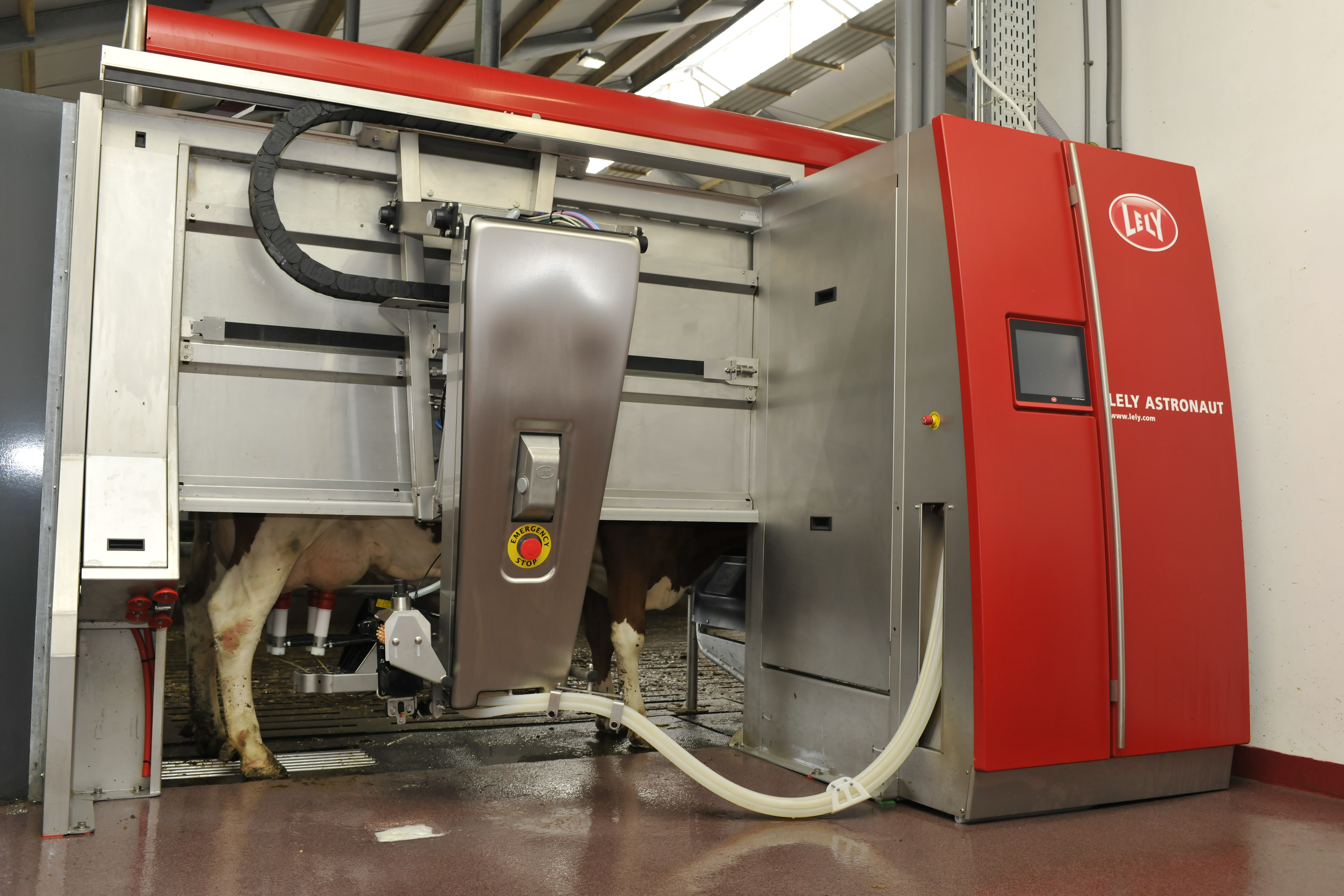 Lely Astronaut milk robot